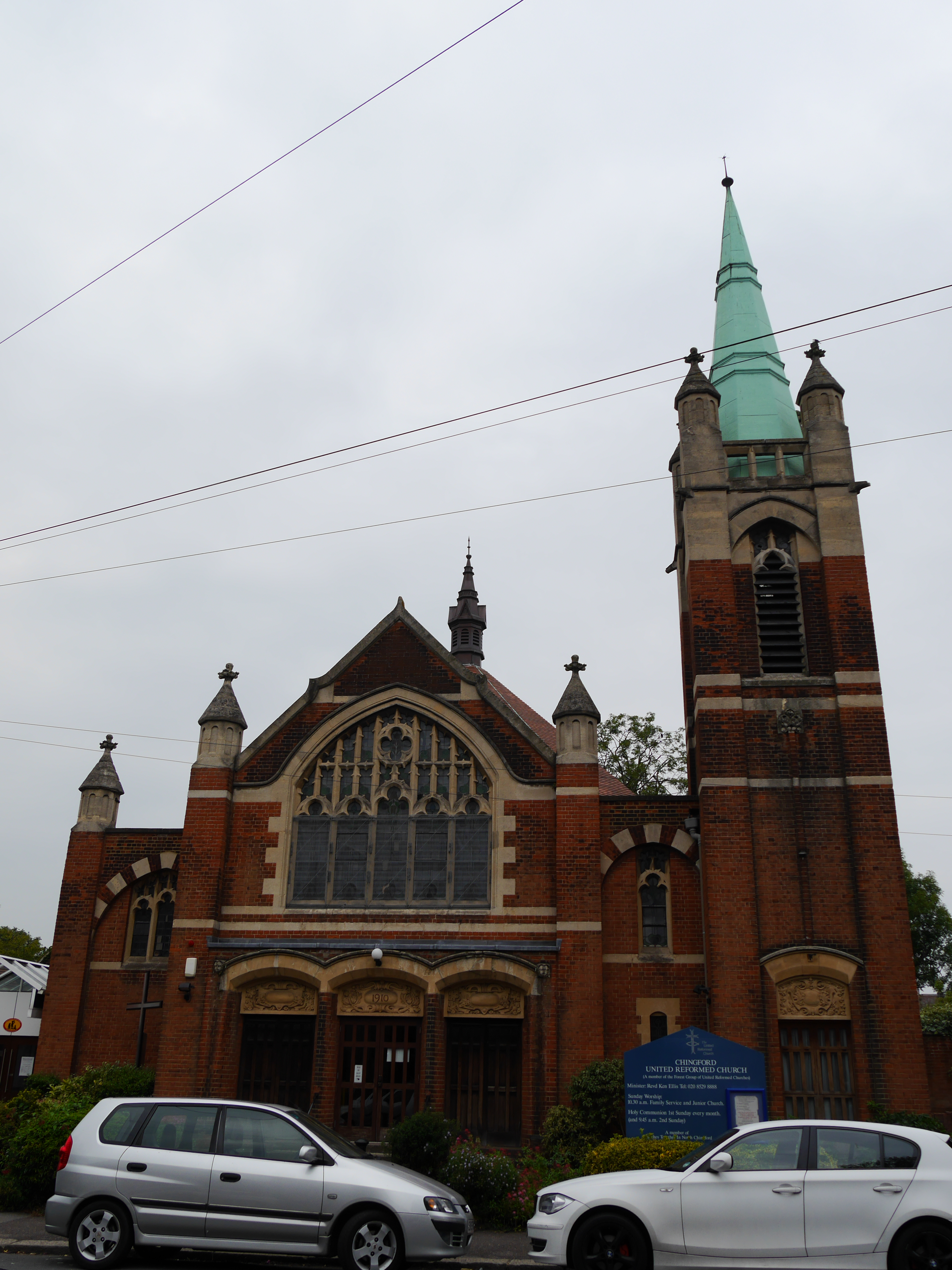 Chingford United Reformed Church